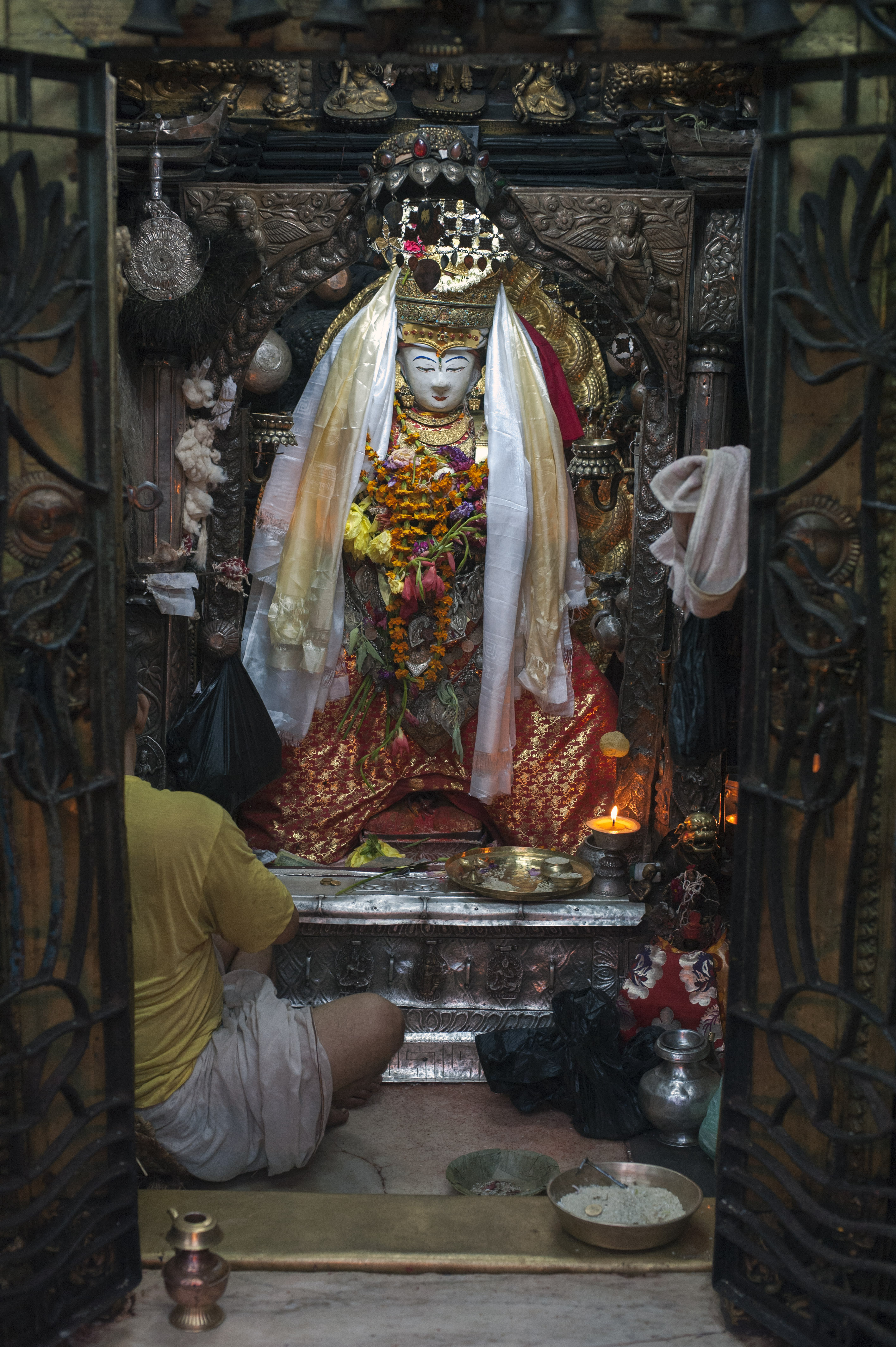 Image of (white Avalokitesvara) in the Jana Bahal temple, Kathmandu, Nepal.